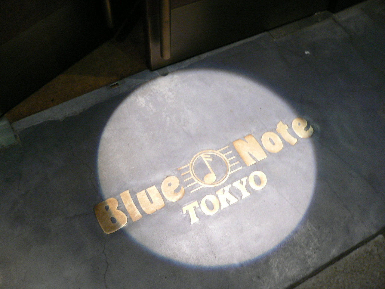 Blue Note Tokyo